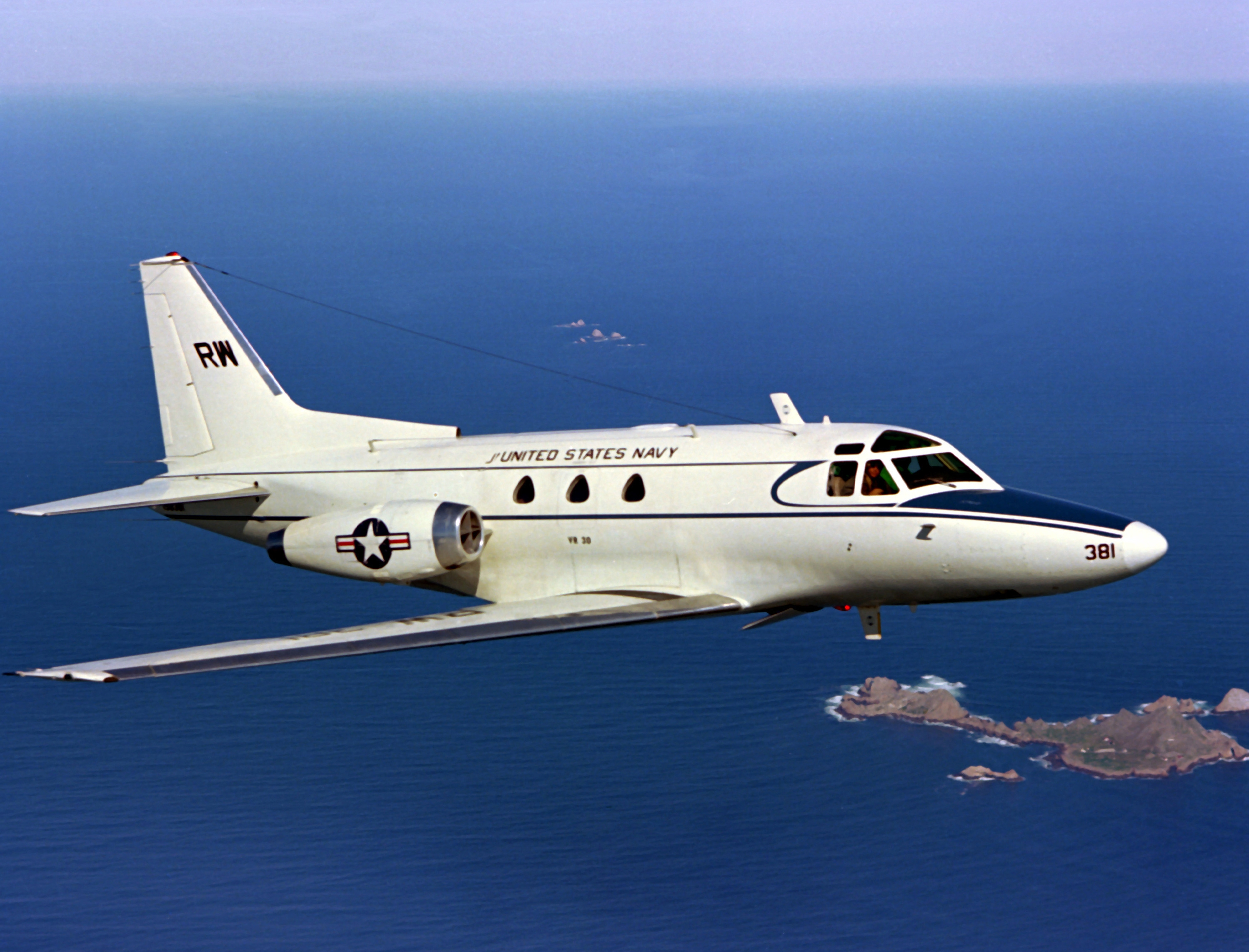 A U.S. Navy North American CT-39E Sabreliner (BuNo 158381) assigned to Fleet Logistics Support Squadron VR-30 in flight. This aircraft crashed in the South China Sea off the Spratly Islands on 12 July 1988 on a flight from Singapore to Subic Bay, Philippines. The three crewmembers were rescued by a Vietnamese fishing boat.